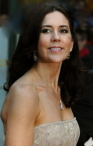 Wedding of Victoria, Crown Princess of Sweden, and Daniel Westling; Arrival of members for the Gouvernment and Swedish and foreign guests of hounour to the Riksdag's Gala Performance at Konserthuset